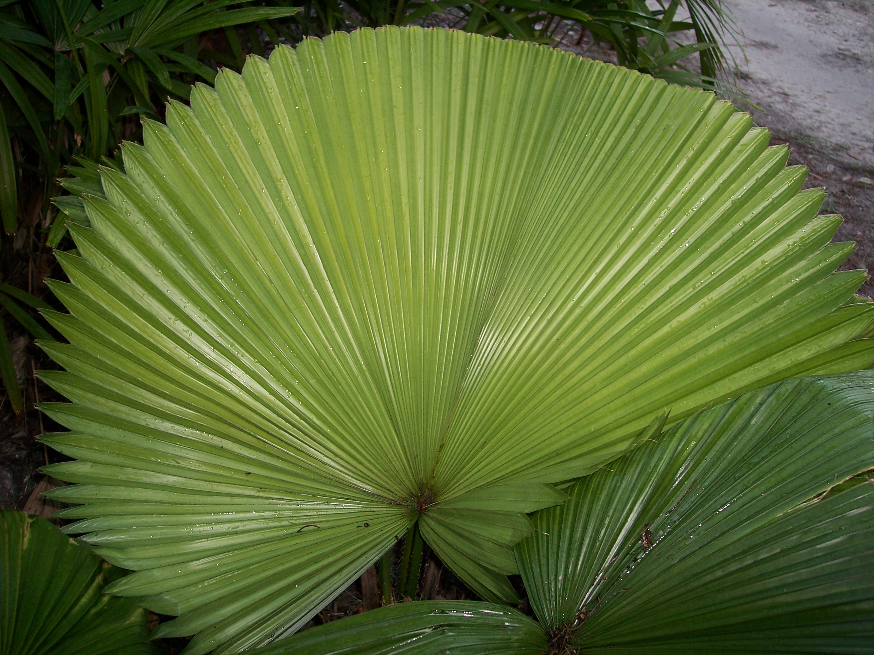 New Licuala peltata leaf